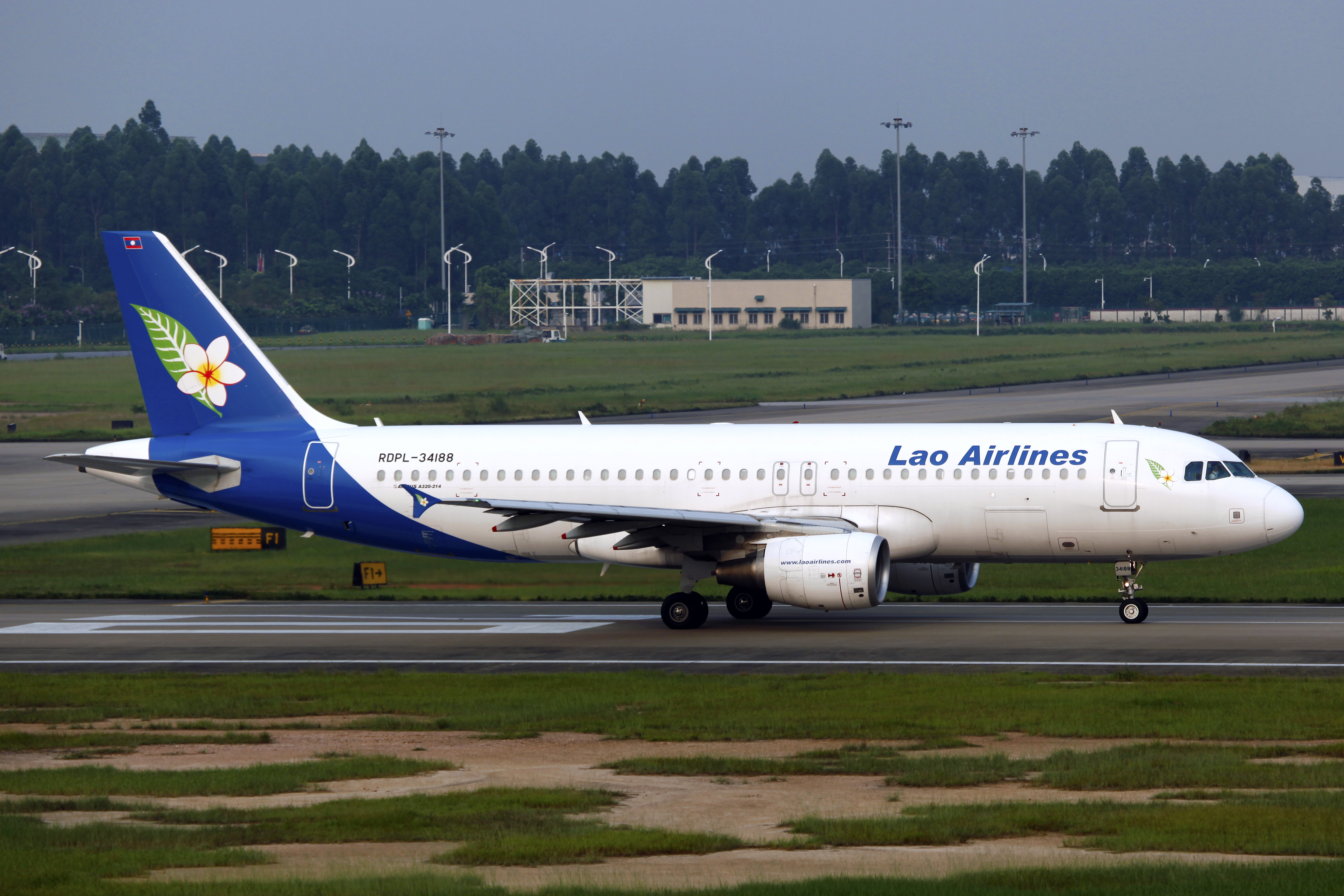 RDPL-34188 | Lao Airlines | Airbus A320-214 | Guangzhou Baiyun International Airport [CAN]